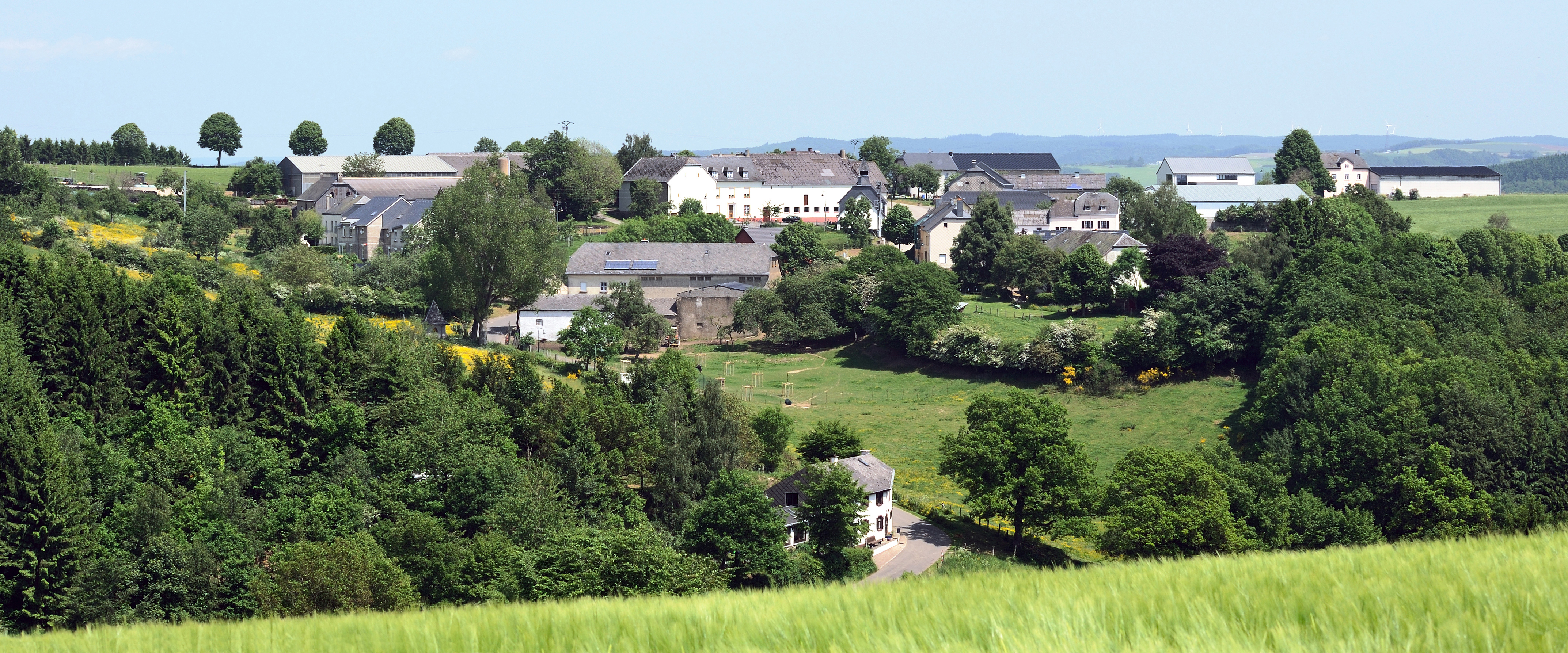 Village of Kalborn, Oesling, Luxembourg, seen from the South.